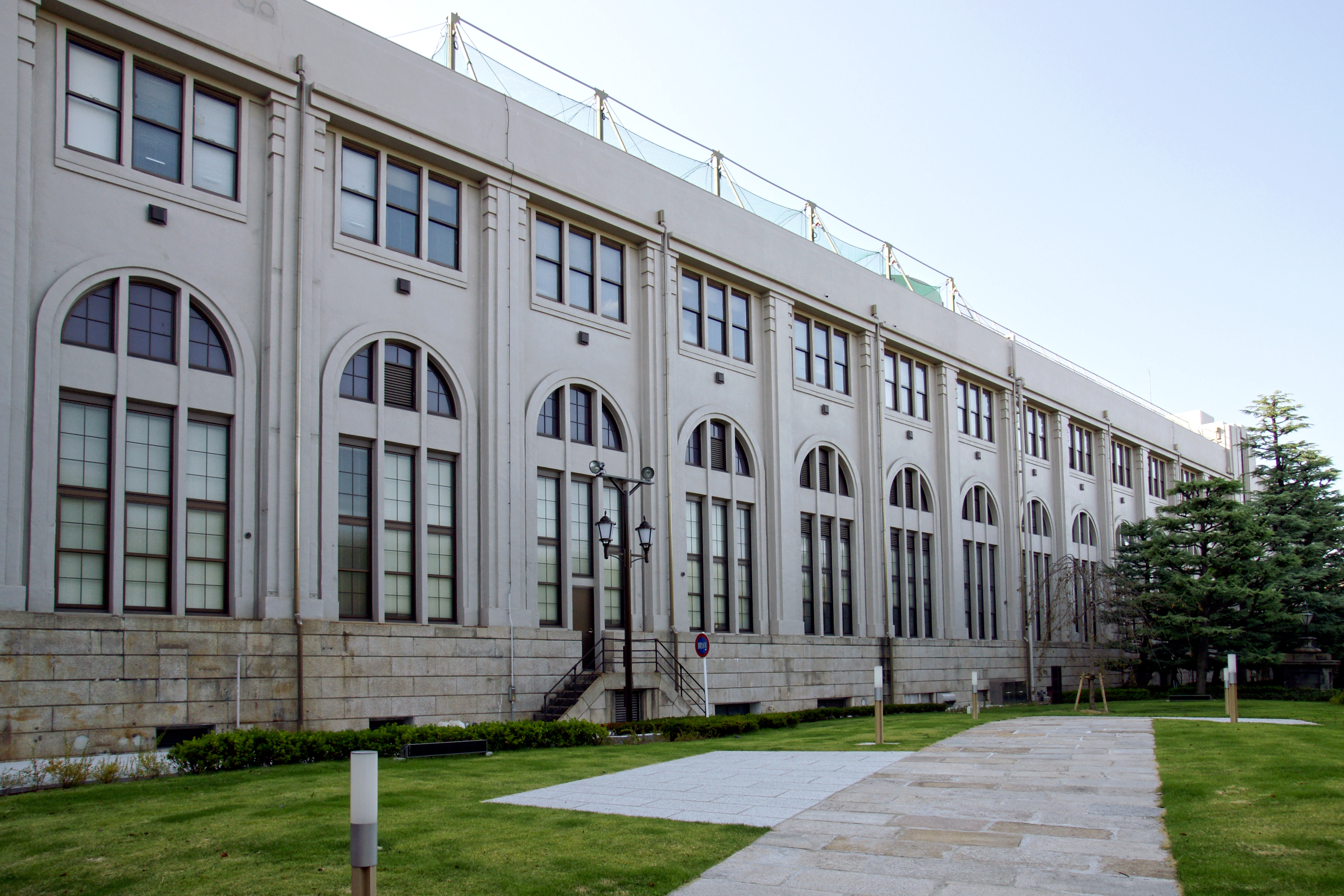 Japan Mint head office in Osaka, Osaka prefecture, Japan.